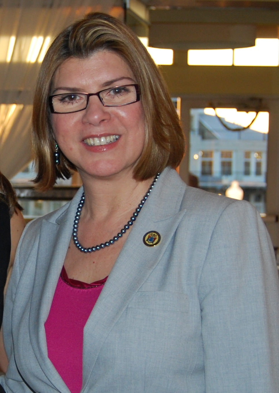 New Jersey Senator Nellie Pou.